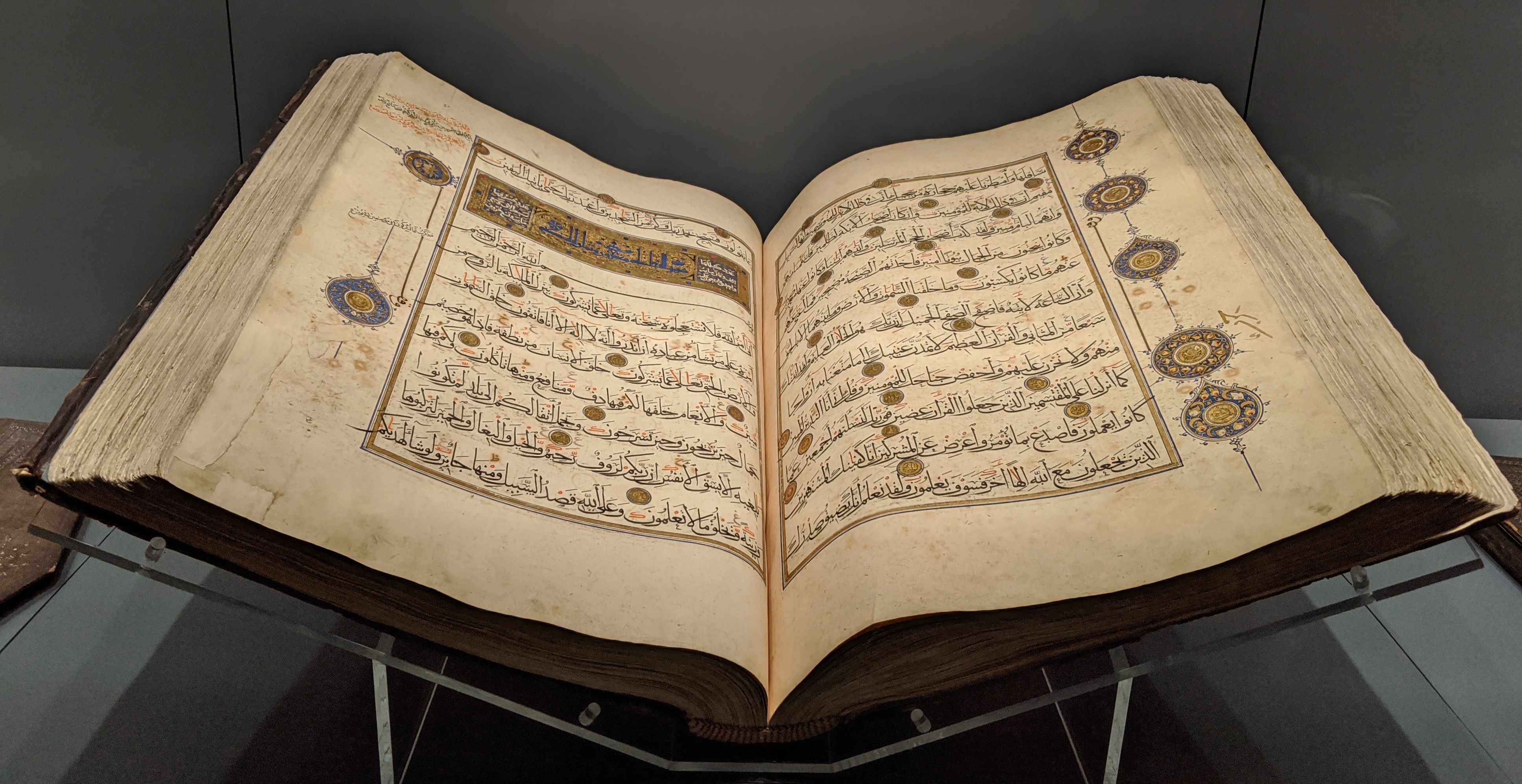 Mamluk era Quran, dated circa 1380, open to sura 16 inv. no 226 Turkish and Islamic Arts Museum Native nameTürk ve İslâm Eserleri MüzesiLocationIstanbulCoordinates41° 00′ 22.6″ N, 28° 58′ 28.4″ E Established1914Web control : Q525939 VIAF: 137639434 ISNI: 0000 0001 2110 5264 LCCN: nr89008075 SUDOC: 066011000 BNF: 13619676w WorldCat institution QS:P195,Q525939